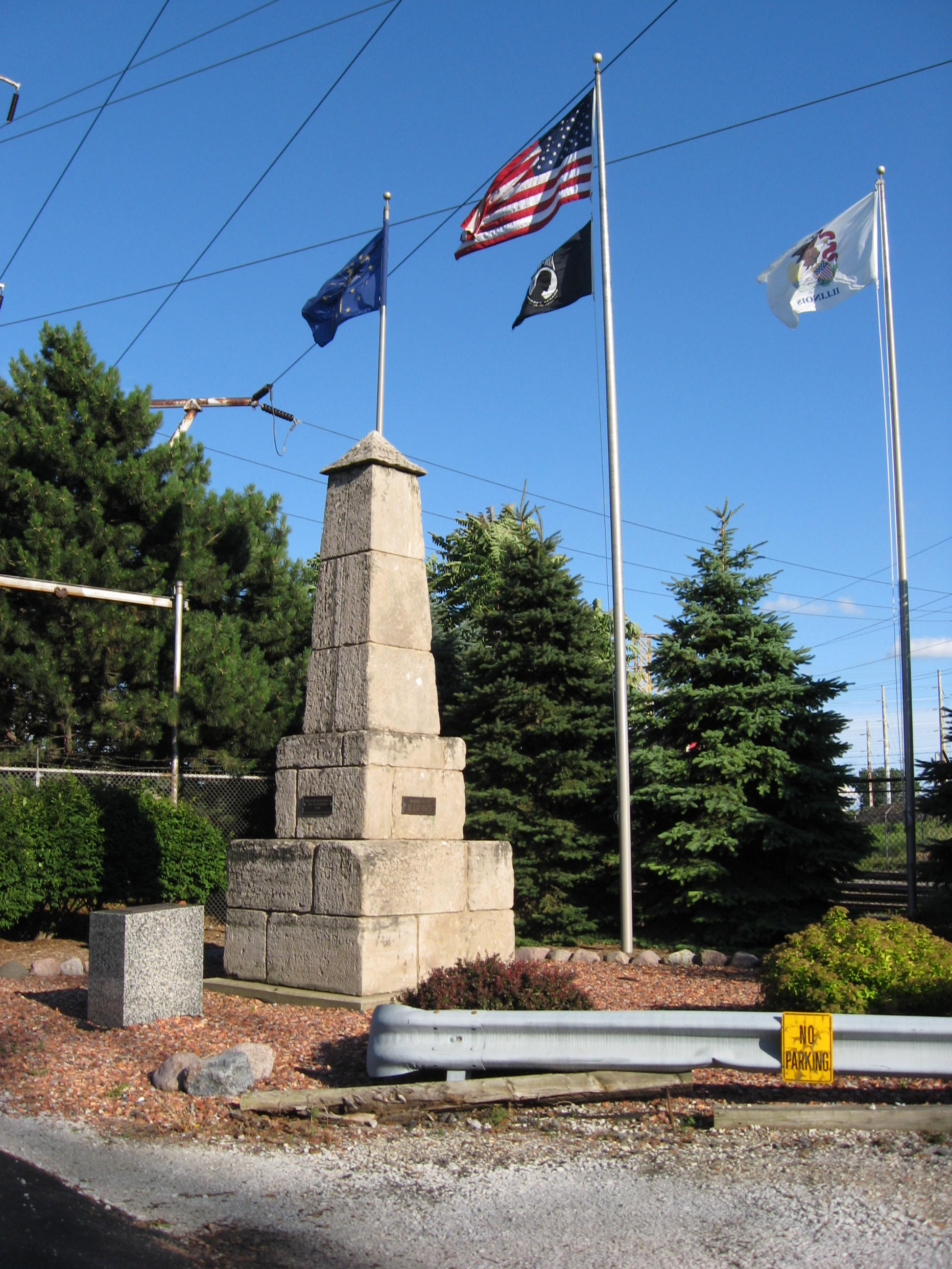 Illinois-Indiana State Line Boundary Marker, created ca. 1838.